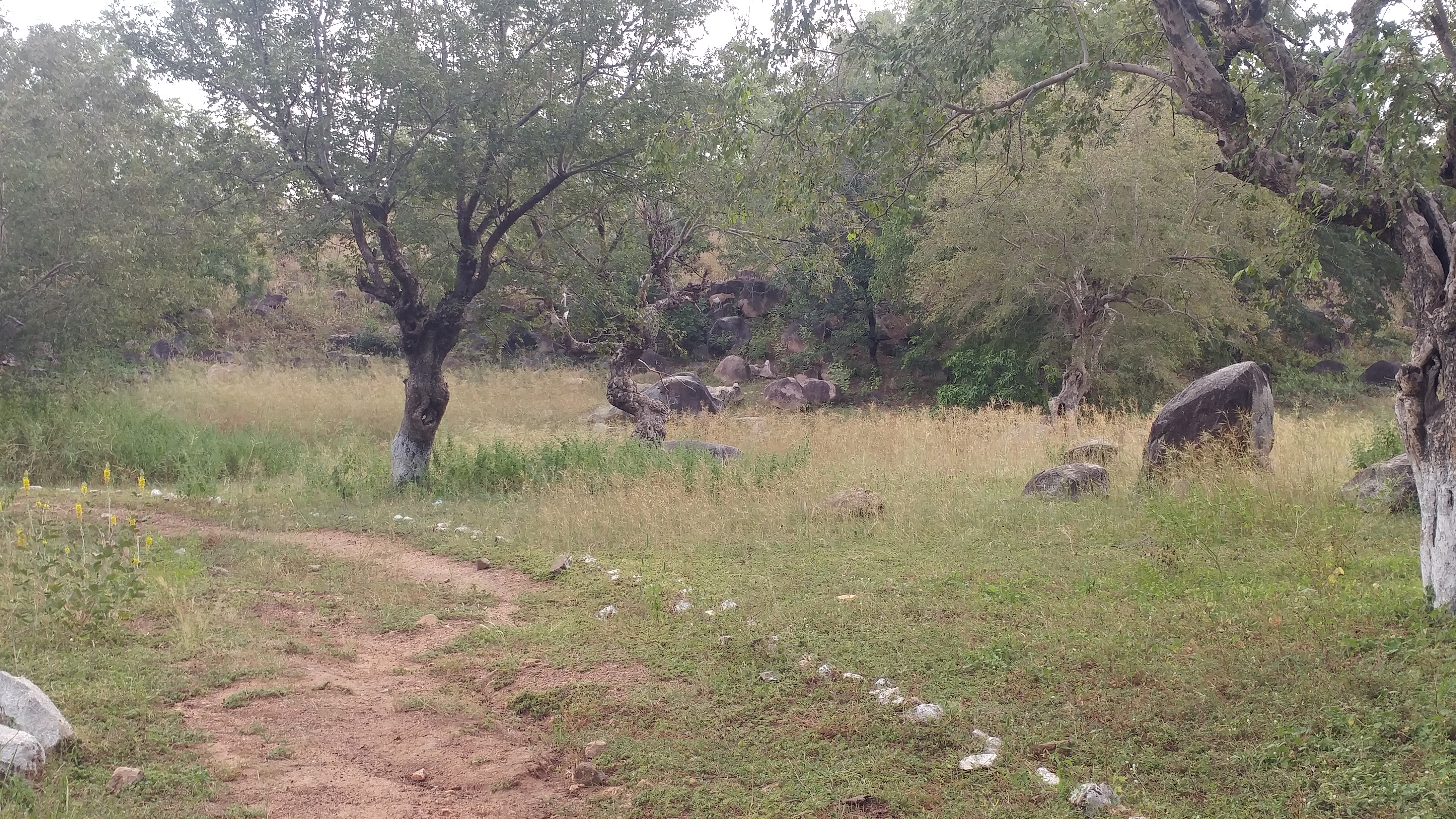 Slaves where tied to these trees.